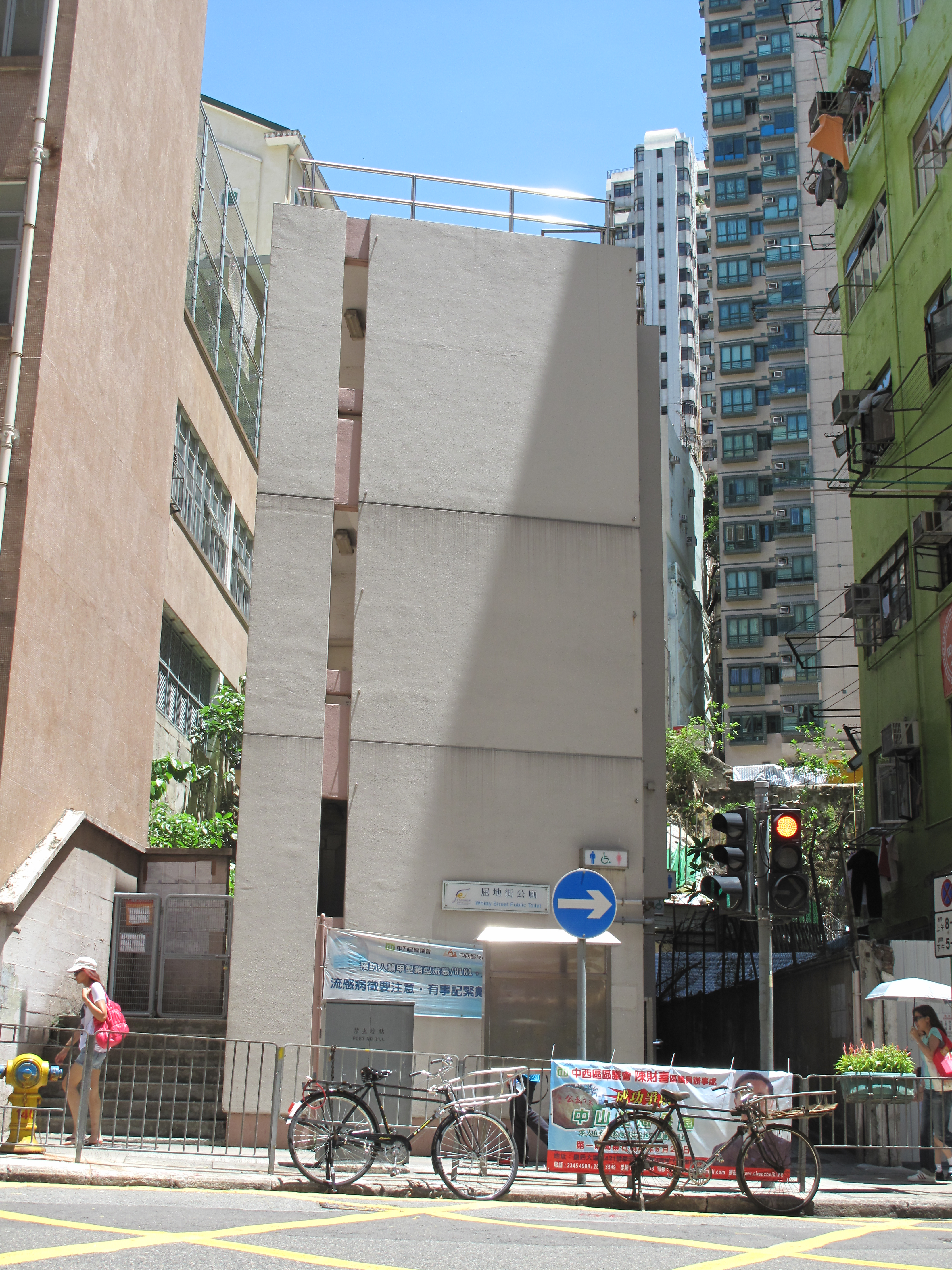 Whitty Street Public Toilet